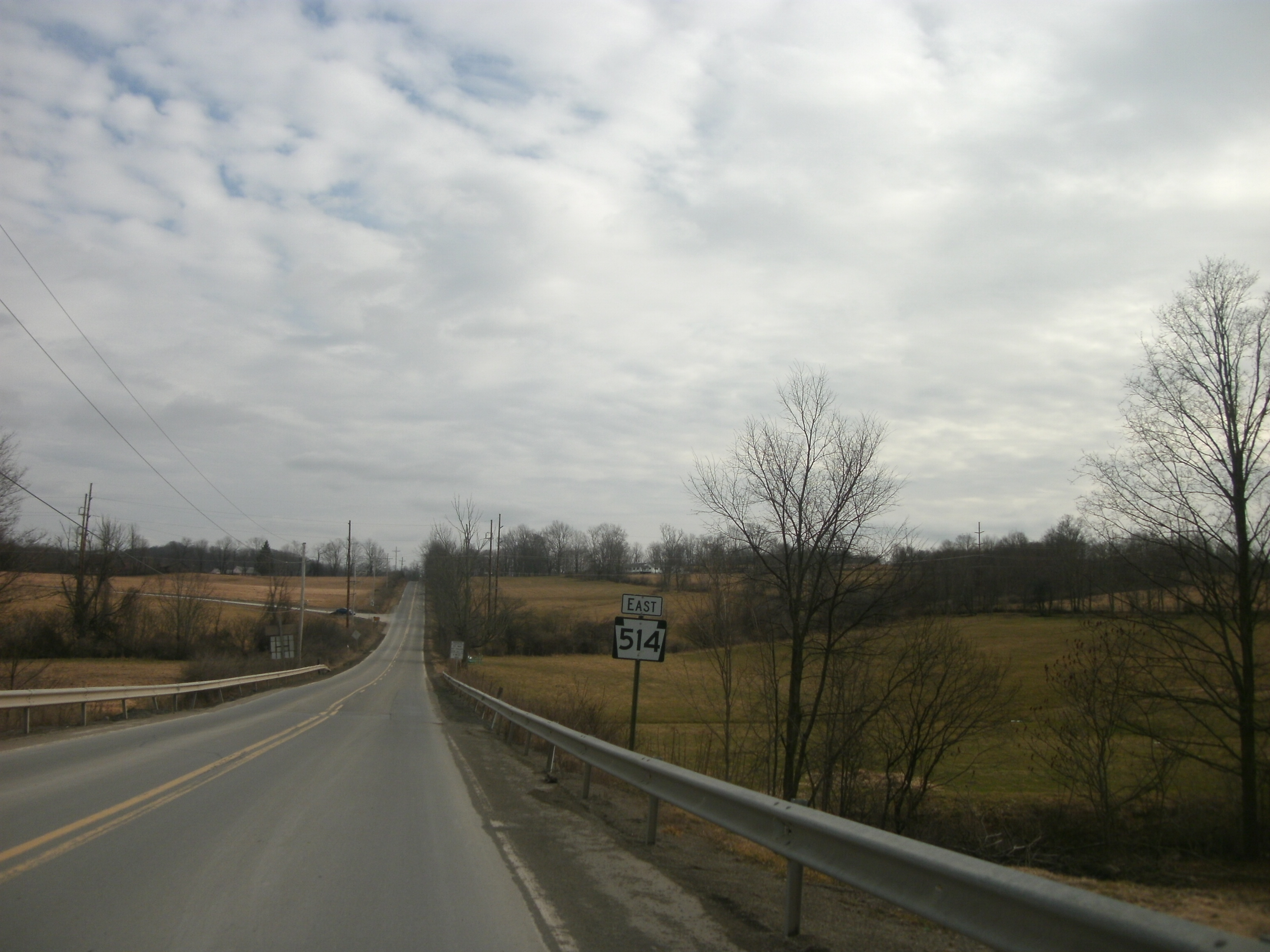 Route 514 heading eastbound from Route 14 in Troy Township, Pennsylvania.